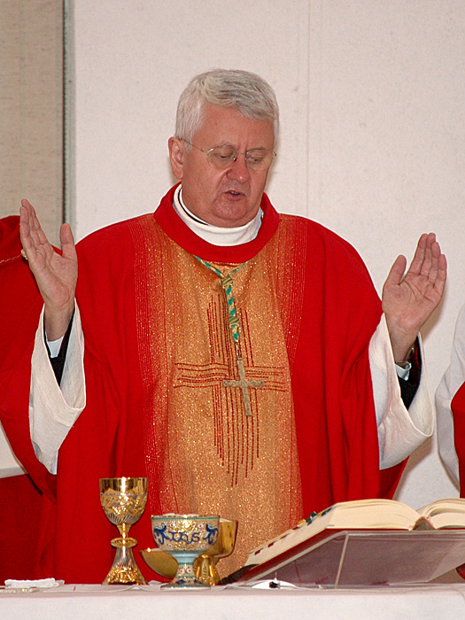 Bishop Stanislav Stolárik, Auxiliary Bishop of Košice